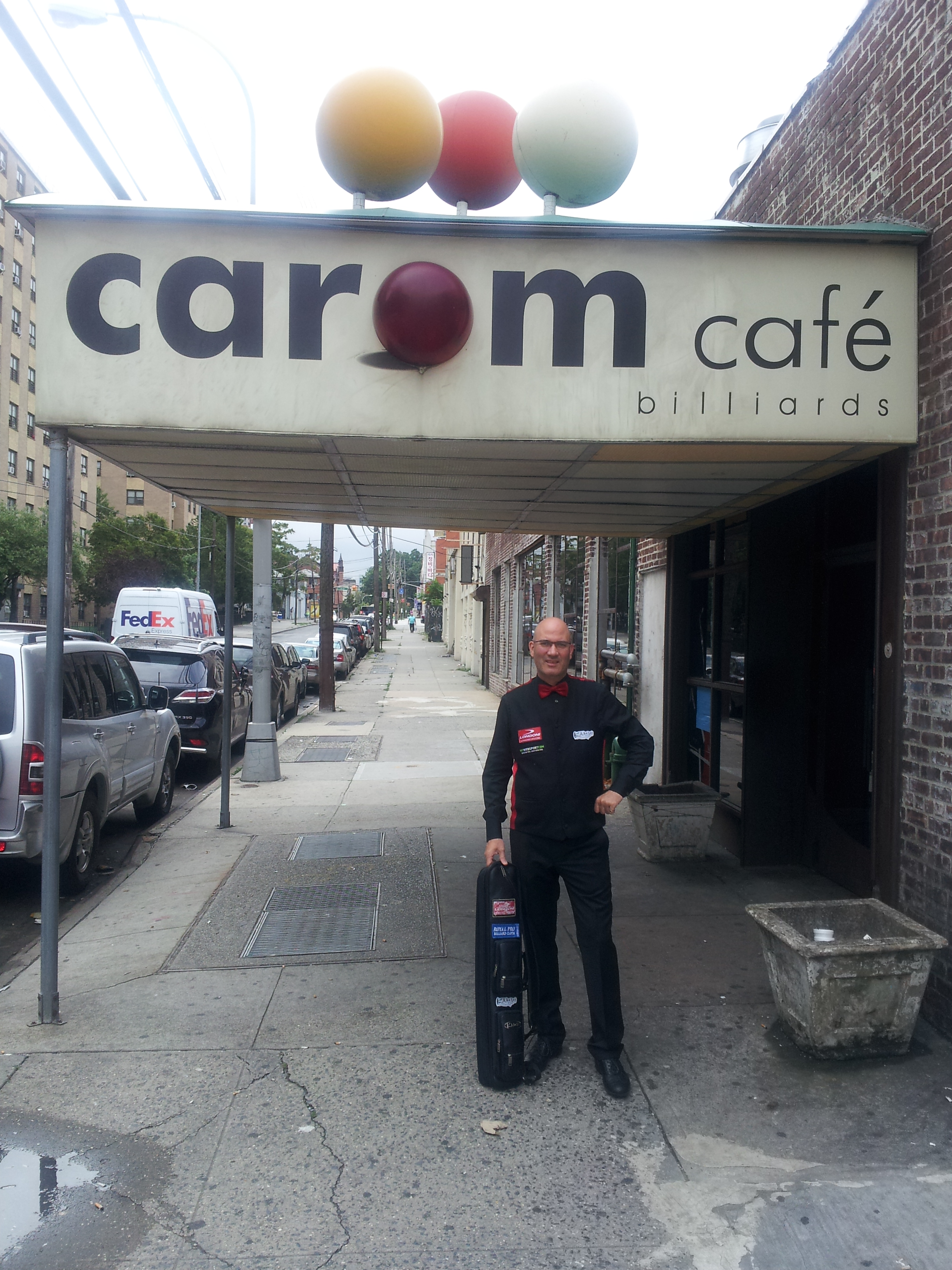 Verhoeven Open 2016. 3-Cushion Tournament at the Carom Café in New York City.